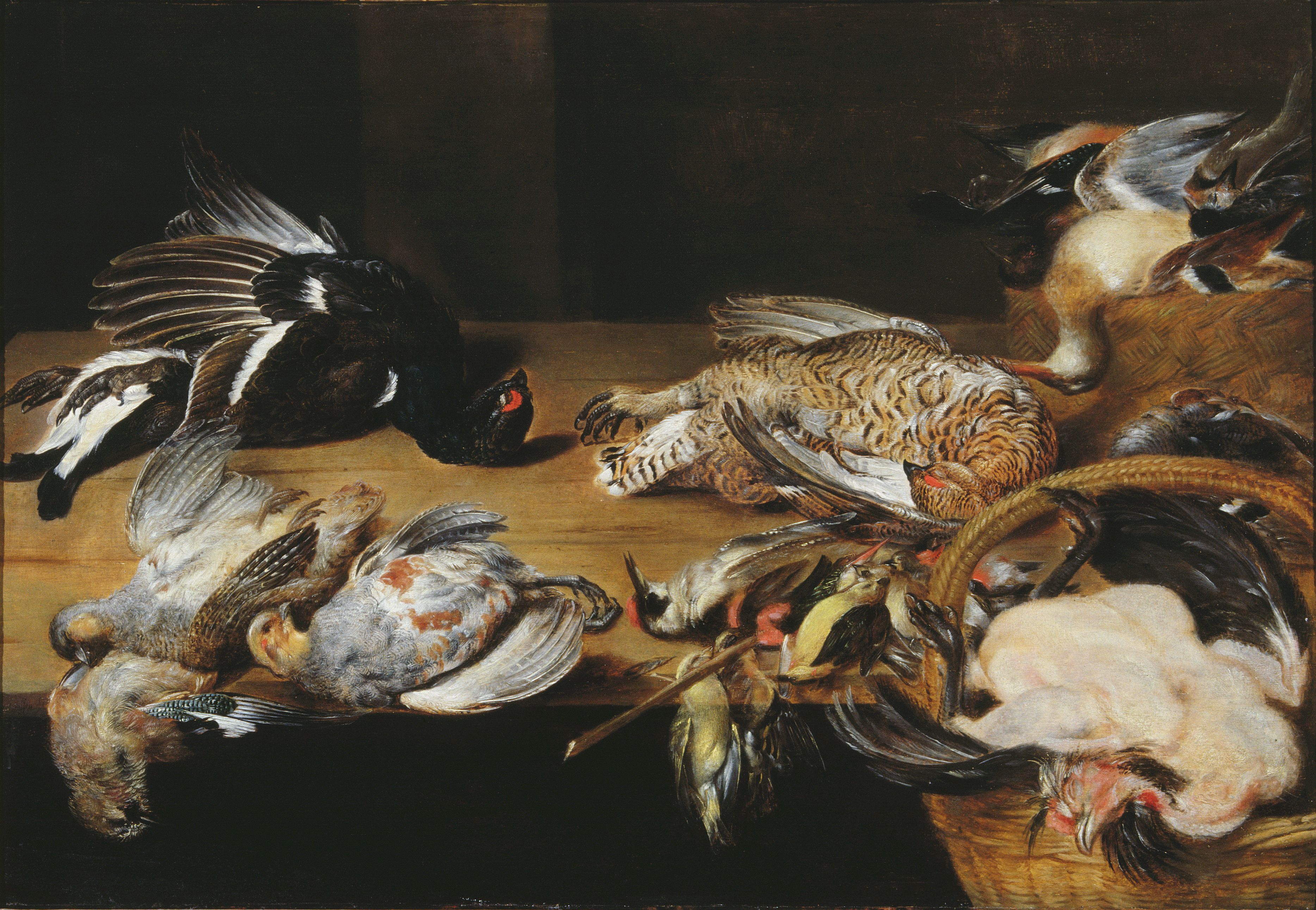 Painting in Rubenshuis, Antwerp